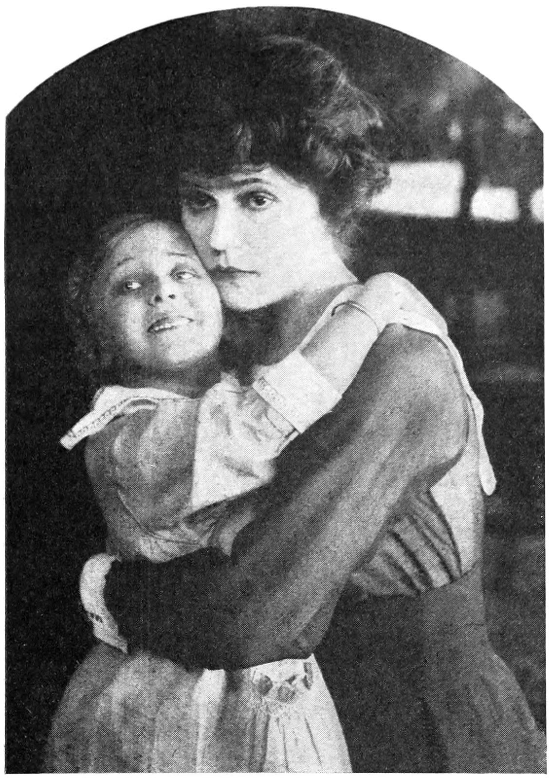 Promotional still for the 1918 film Woman and Wife, starring Alice Brady